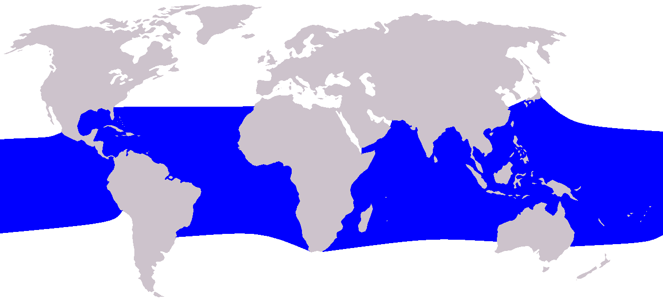 Distribution of fraser's Dolphin Lagenodelphis hosei